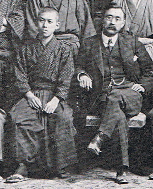 Jun'ichirō Tanizaki as an editor of the Journal of the First Higher School (then the preparatory division for the Tokyo Imperial University), and its Head Master Nitobe Inazō. A cropped image from the "Journal of FHS editors' memorial photograph".